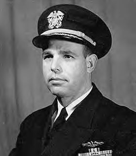 Image of Rear Admiral R.C. Benitez found at: On page 32 pf "Blind Man's Bluff: The Untold Story of American Submarine Espionage"; by: Christopher Drew, with Annette Lawrence Drew; publisher=Public Affairs 1998; ISBN 006097771X. The book sources the image from the Dept. of the Navy. Also found at: n